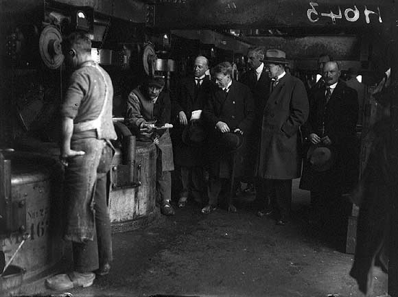 Taoiseach W.T. Cosgrave (holding furled umbrella) with other dignitaries visiting the recently opened sugar beet processing factory at Strawhall, Co. Carlow. Probably little hope of identifying the two workers, as they may well have been from Holland or Belgium, though who knows given the reach of the interweb! However, if any of you can help with identifying the "suits", we'd be very pleased. Date: October 1926 NLI Ref.: INDH643